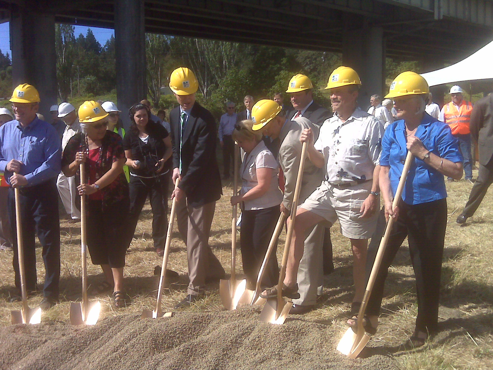 Officials break ground for the Willamette River Bridge project on Interstate 5 in Eugene.